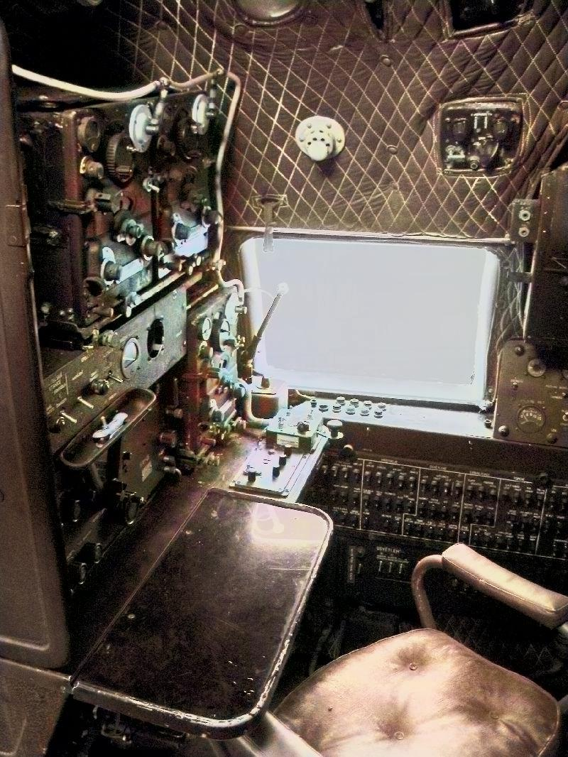 Seat for radio operator in Avia Av-14, Kbely museum, Prague, Czech Republic